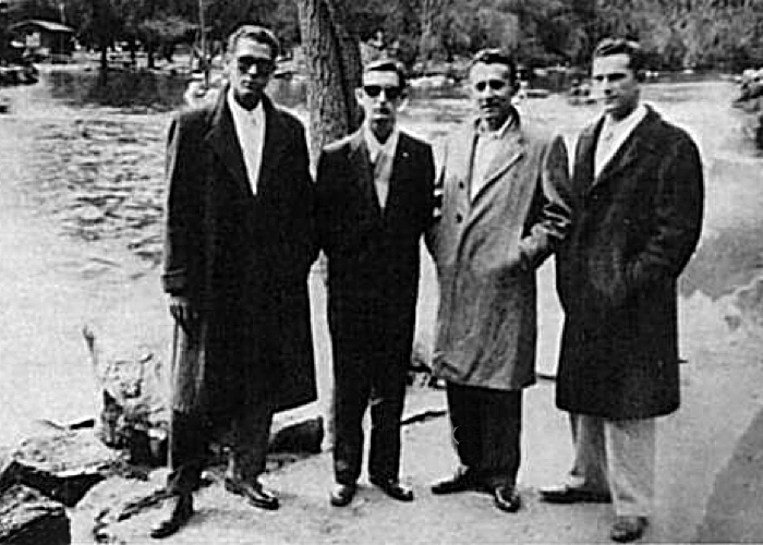 Presidential Palace Attack, Havana. 1957, Humboldt 7 Shootings.